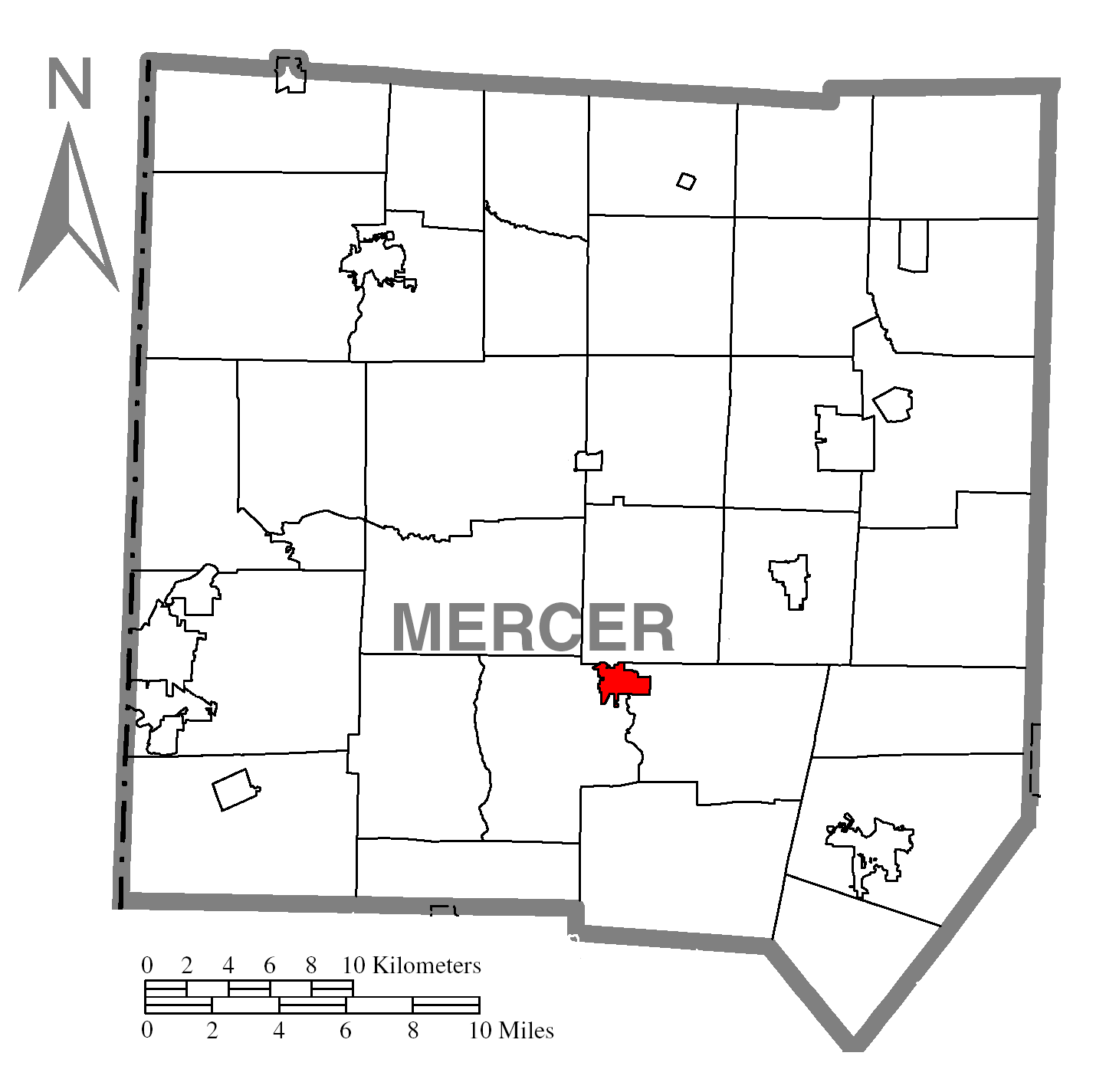 Map of Mercer County higlighting Mercer.